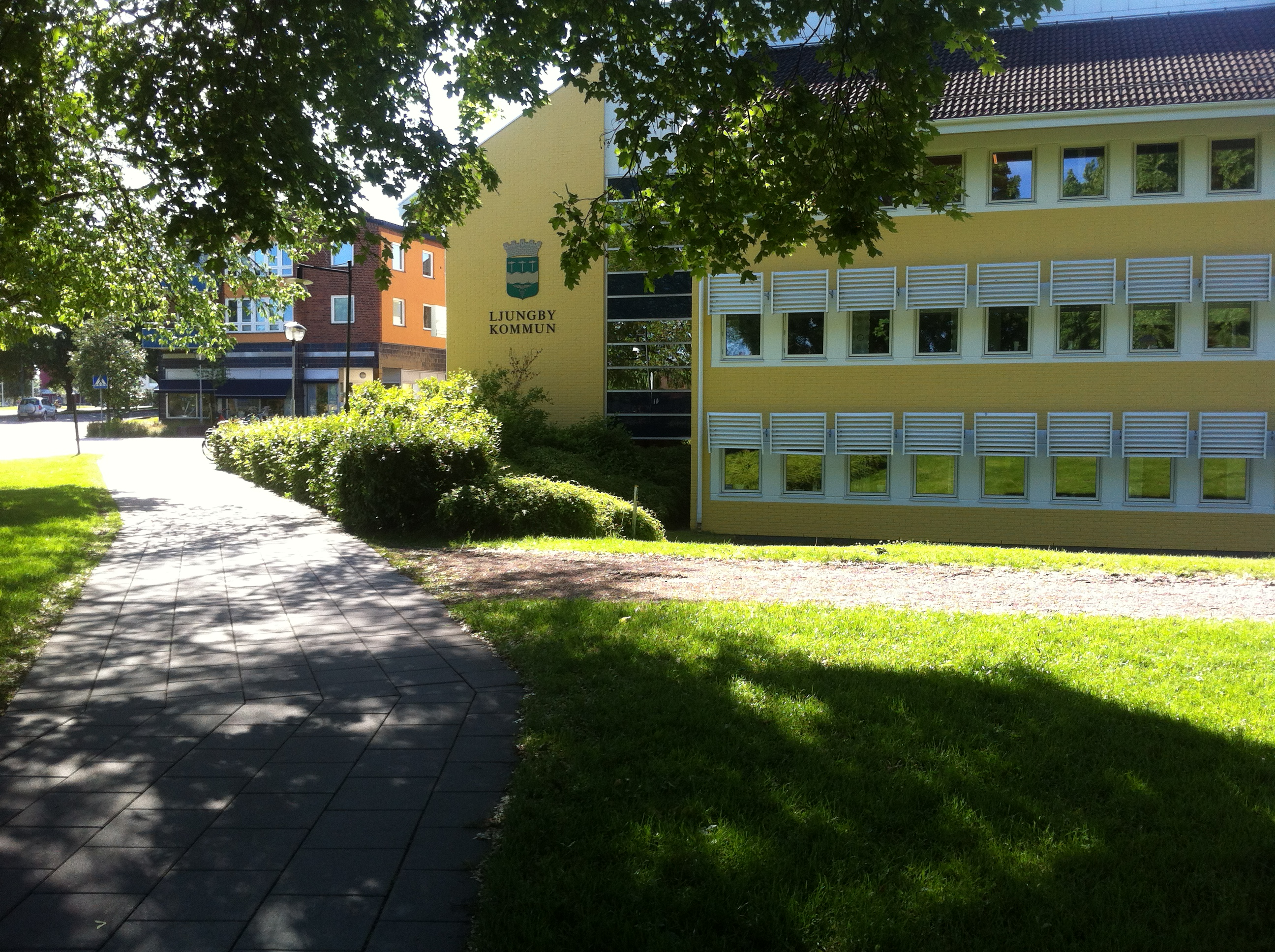 The administrative center of Ljungby Municiplaity.